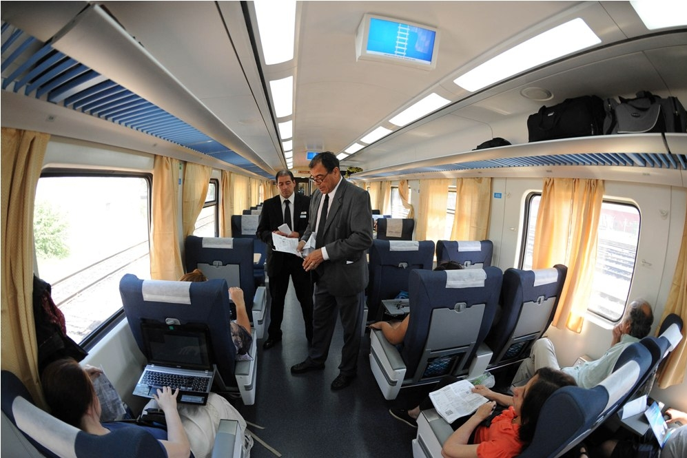 Interior of General Roca Railway rolling stock in Argentina.